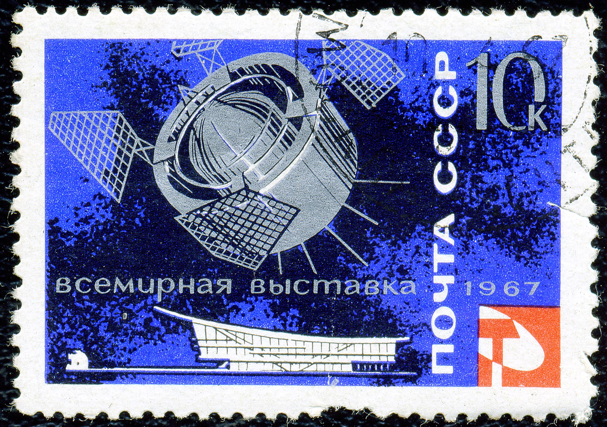 Stamp of the Soviet Union, 1967. Montreal, Expo 67.